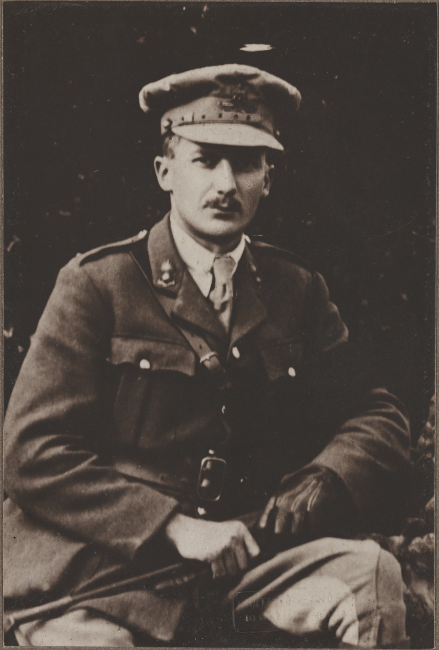 Photograph of Captain Leonard Poulter Leary (1920), Great War medal recipient from New Zealand. Archives New Zealand Reference: AALZ 25044 2 / F1080 44 Part of a series of photographs obtained by the New Zealand National Museum provided by families of New Zealanders who had received a medal during the Great War.